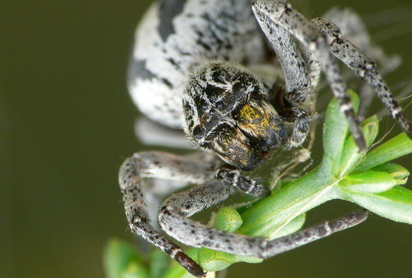 Stegodyphus lineatus - Taken in La Azohia.Cartagena.Spain 2007-04 author: User:JoaquinPortela (placed picture into english wiki, i moved it here --Sarefo 20:18, 30 September 2007 (UTC))